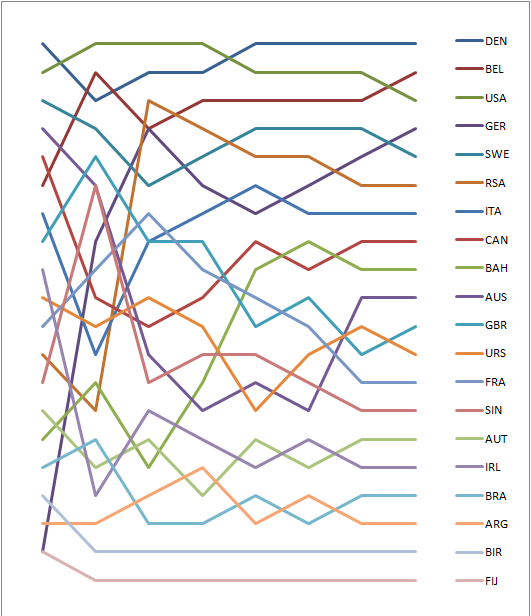 Graph showing the daily standings in the 1956 Olympics Sharpie